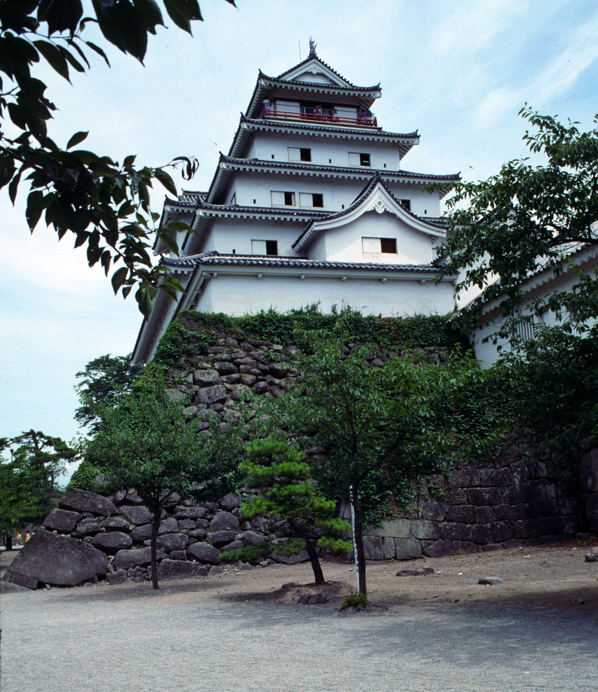 Aizuwakamatsu Castle (Tsuruga Castle), Aizuwakamatsu, Fukushima Prefecture Japan. Tsuruga Castle Place - Outemachi, Aizuwakamatsu, Fukushima prefecture, Japan. This Tenshu was restored in 1965.